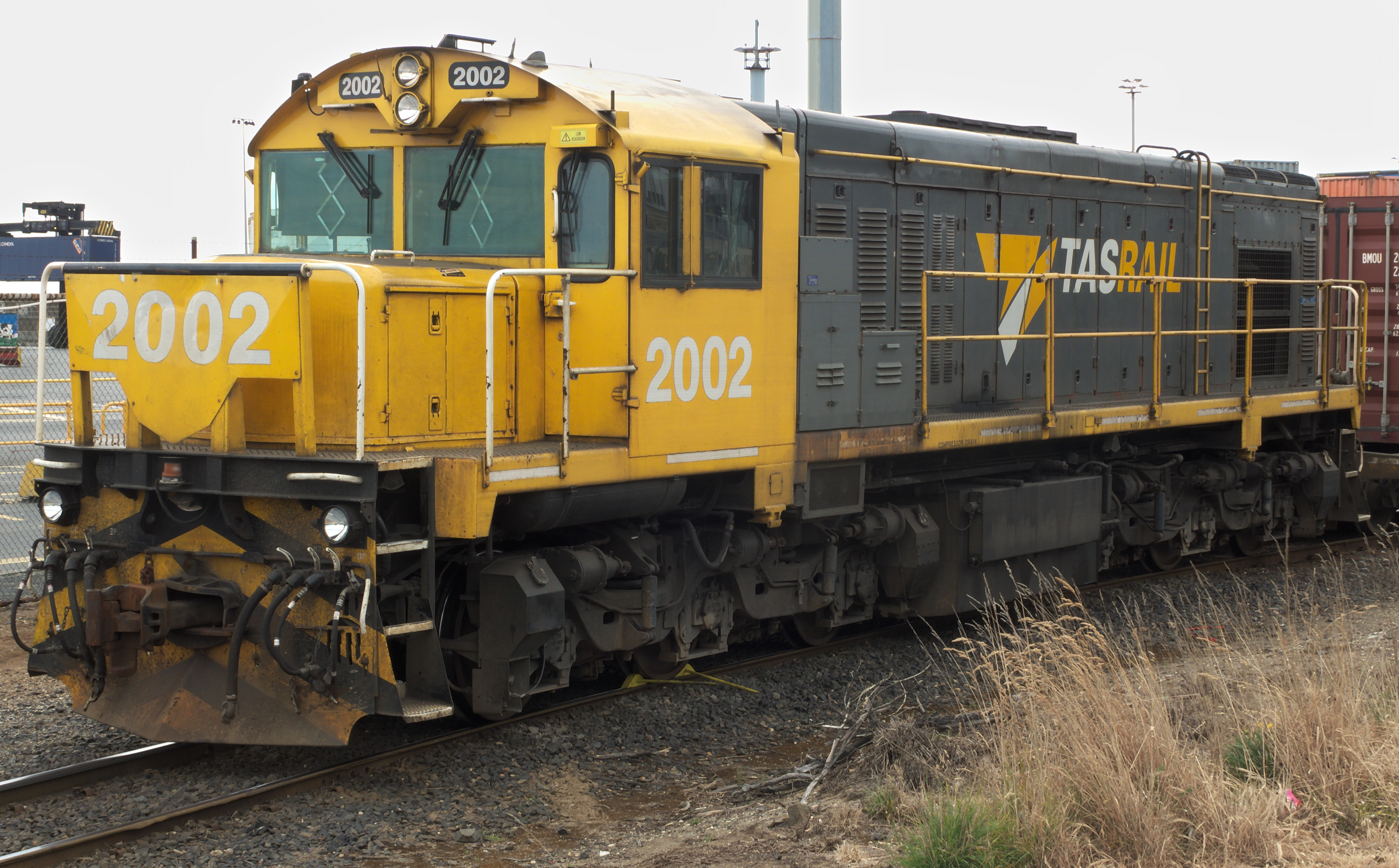 Tasrail locomotive 2002, outside the Port of Burnie. It was previously DQ 6013 in New Zealand, and originally Queensland Railways 1502 class, built in Queensland in the late 1960s.